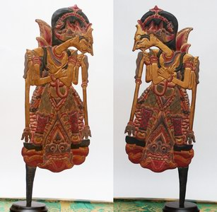 Wooden wayangpuppet of Shiva of ca. 1970.